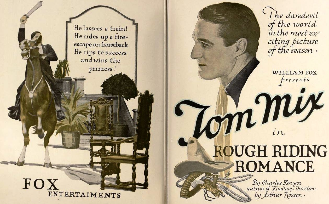 Ad for the American western film Rough-Riding Romance (1919) with Tom Mix, on pages 1358 and 1359 of the August 16, 1919 Motion Picture News.